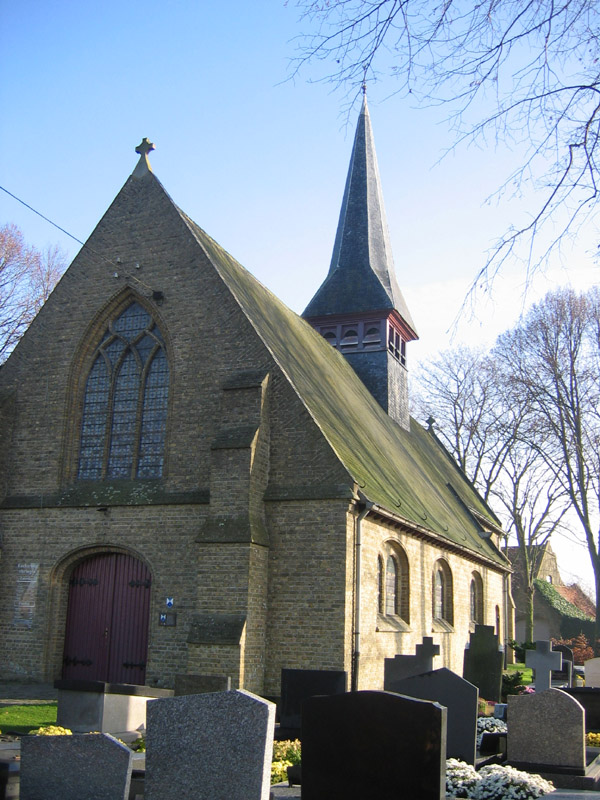 Sint-Jacobuskerk in Sint-Jacobskapelle. Saint Jacob Church in Sint-Jacobskapelle, Diksmuide, West-Flanders, Belgium